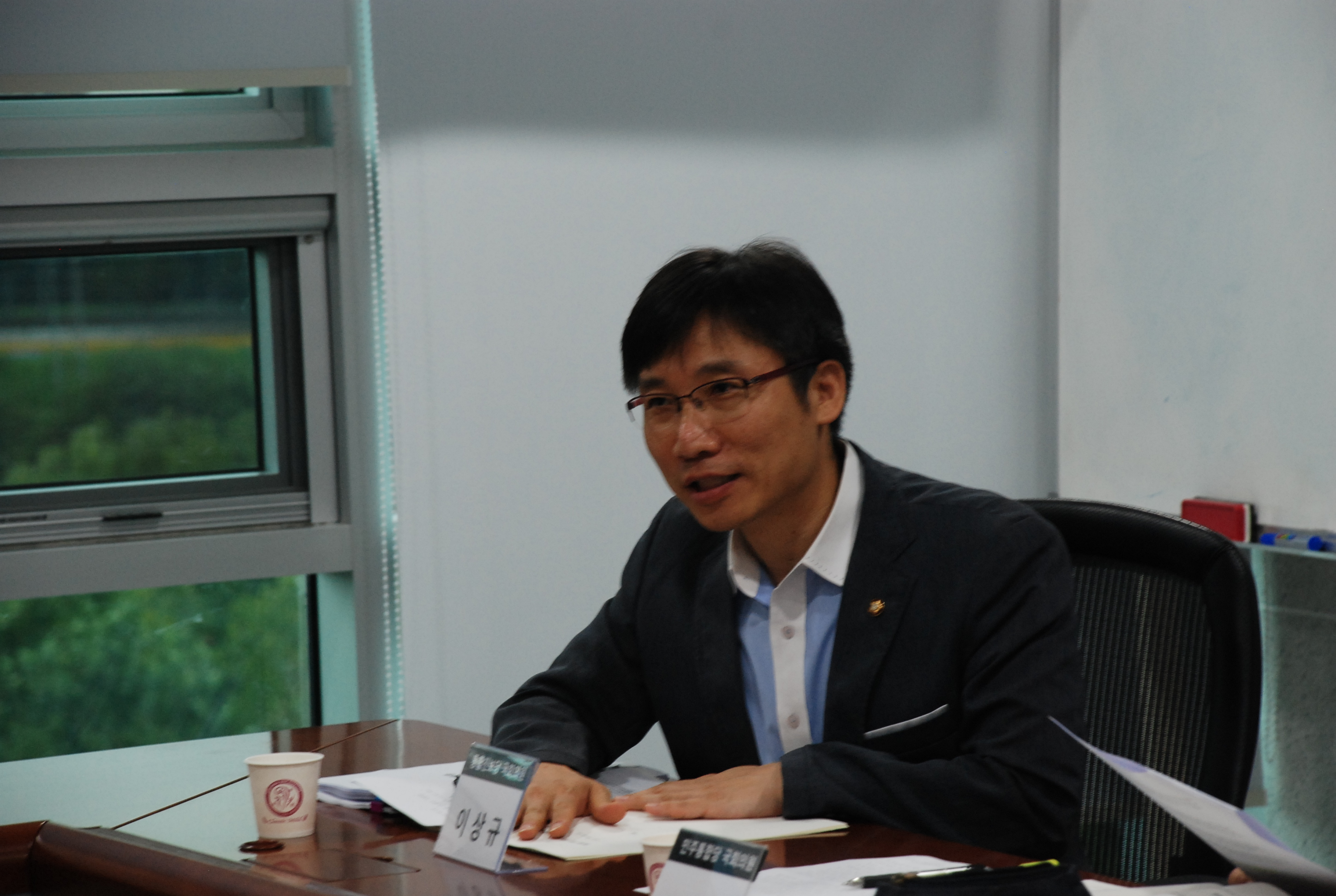 Lee Sangkyu at National Assembly Member's Office Building in 2012.